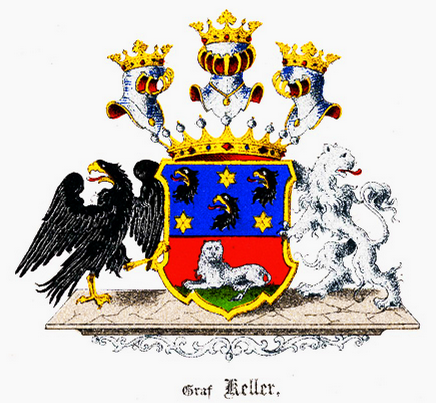 Coat of arms of count Keller family.